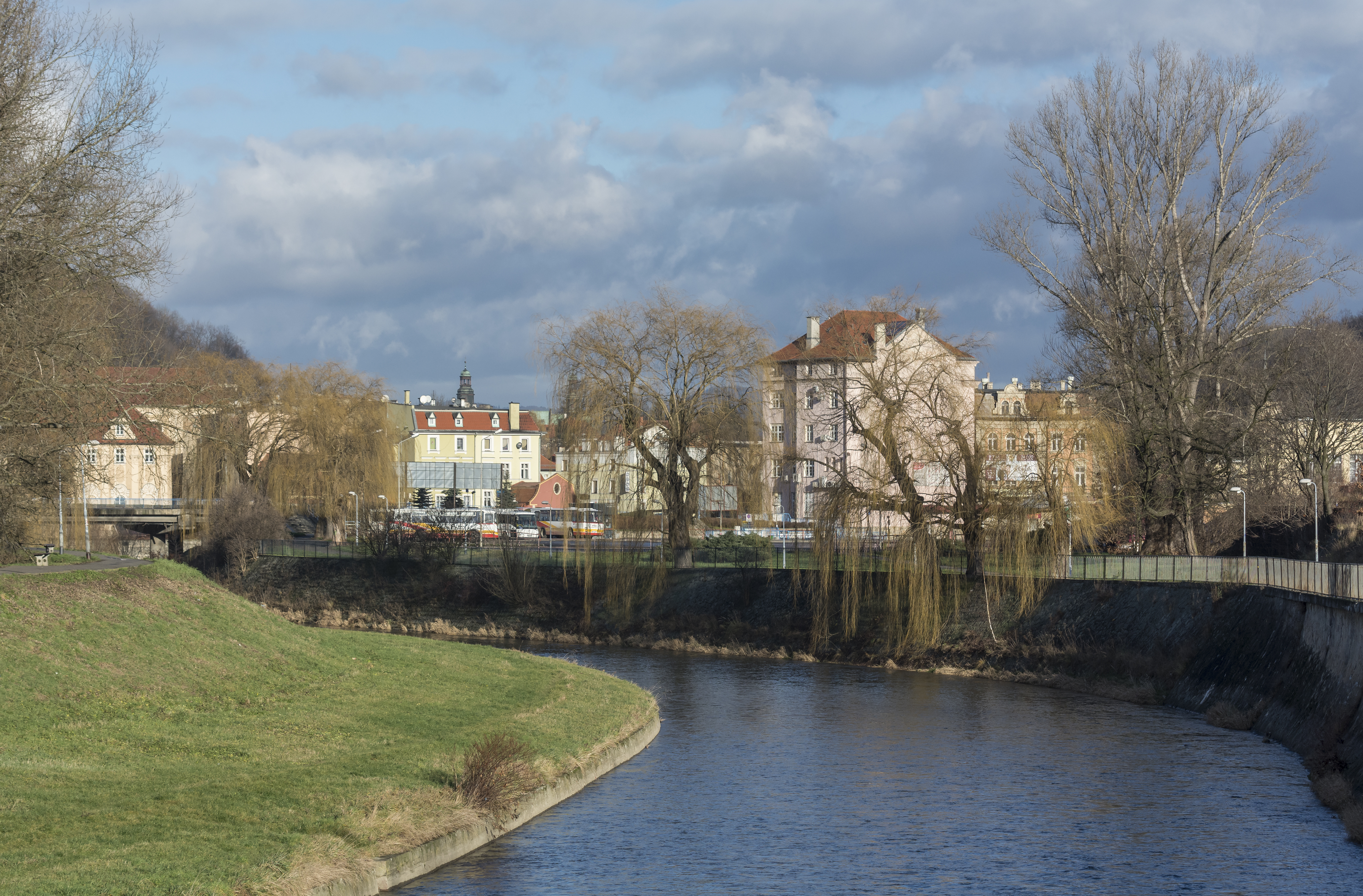 Promenade over Nysa Kłodzka, in Kłodzko